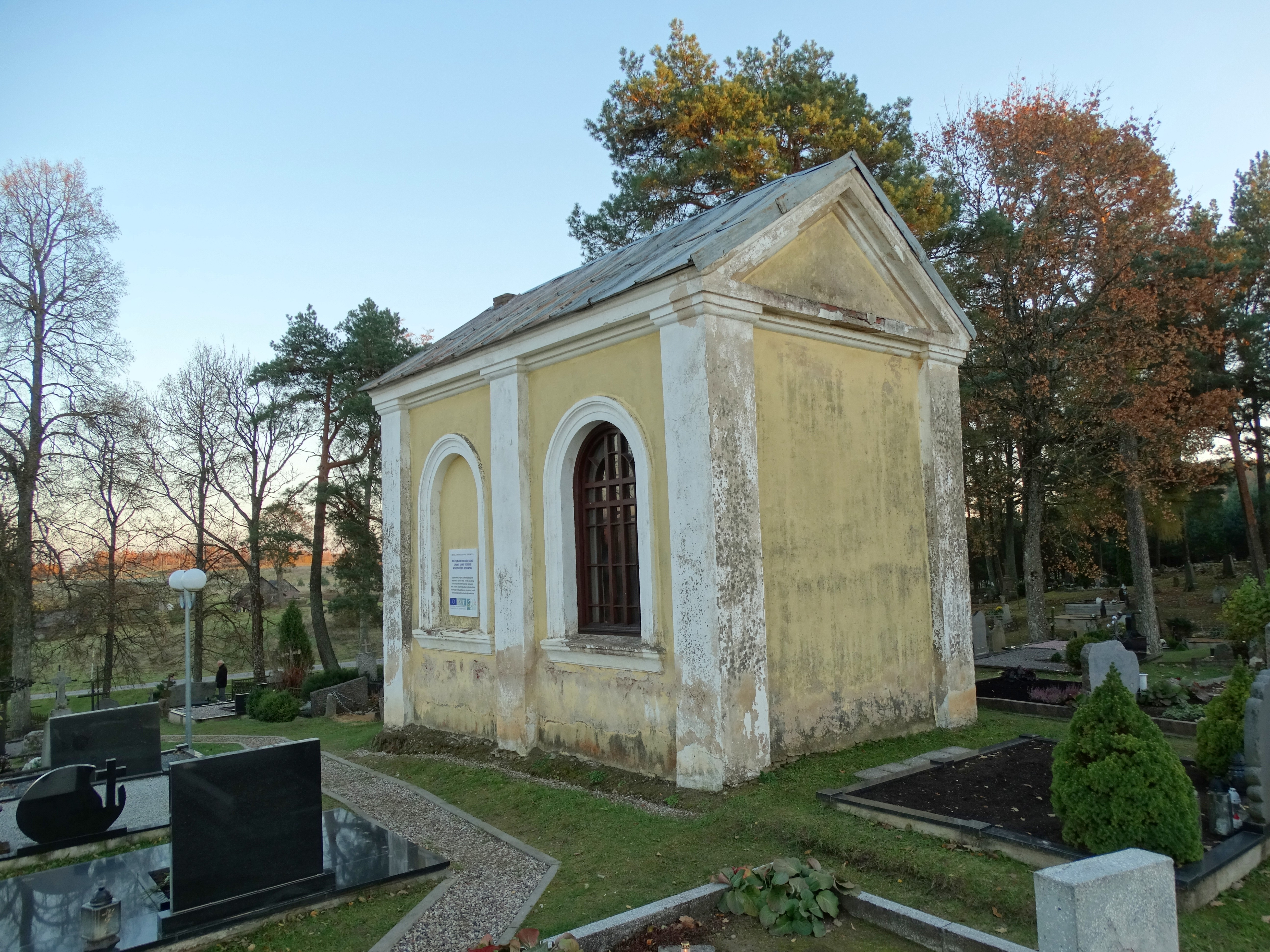 Videniškiai, chapel, Molėtai district, Lithuania